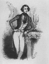 Character of french writer Balzac. De Marsay is a perfect dandy.